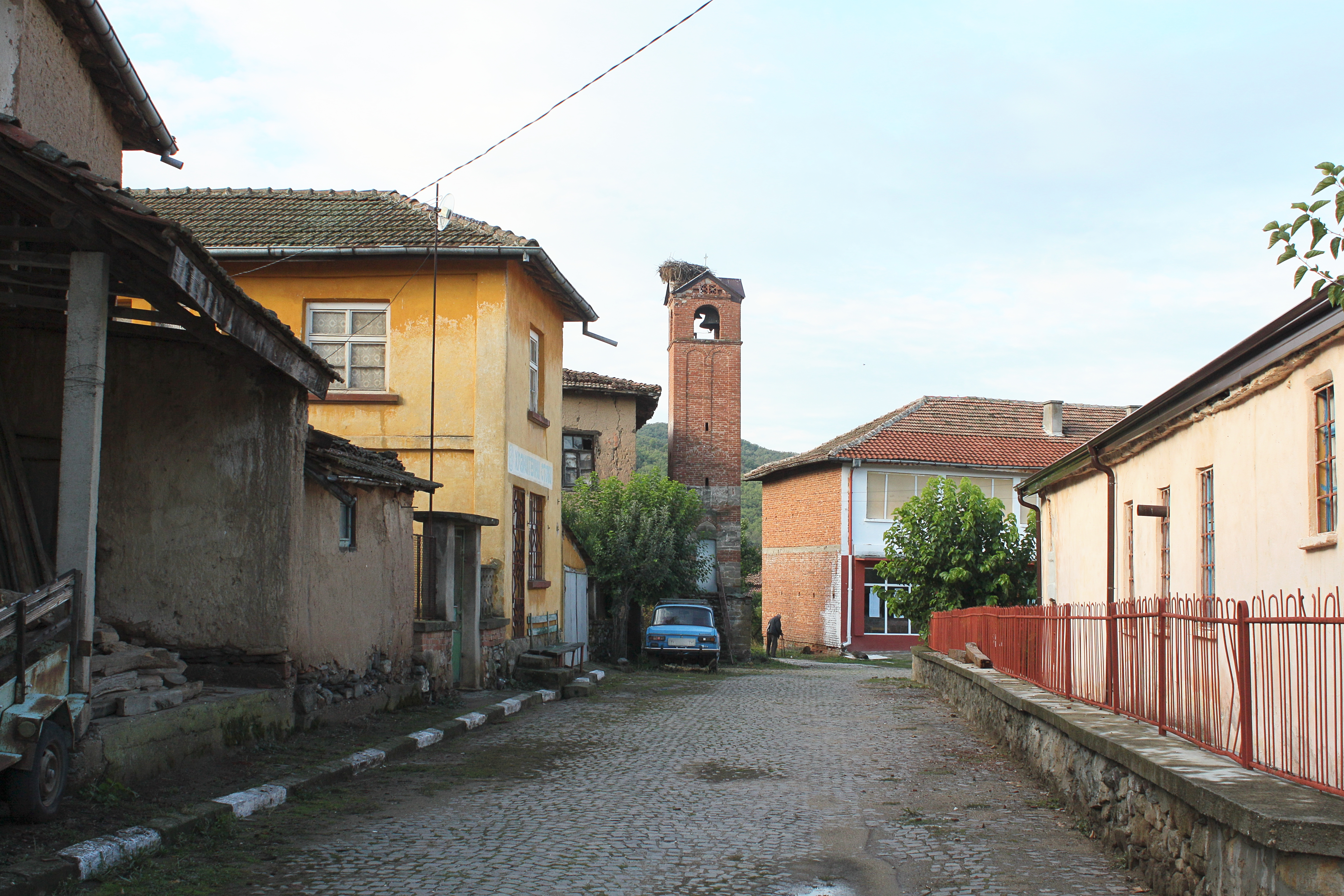 Mandritsa, a village in the Rhodope Mountains, Bulgaria